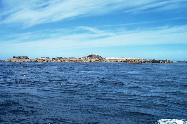 Melledgan - Scilly. A nature reserve for birds.